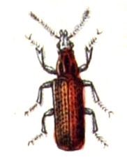 Rhysodes sulcatus, from Calwer's Käferbuch, Table 15, Picture 4. Taxonomy was updated to 2008, using mostly the sites Fauna Europaea and BioLib. Please contact Sarefo if the determination is wrong!